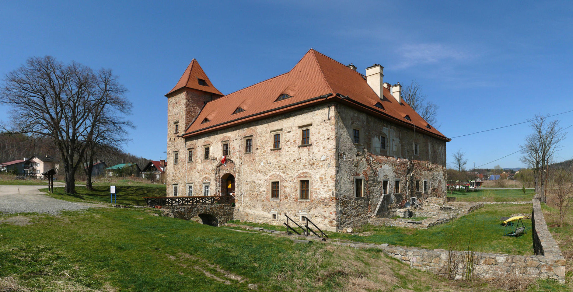 Czarne-the housing estate of Jelenia Góra city.Repaired Manor Czarne.